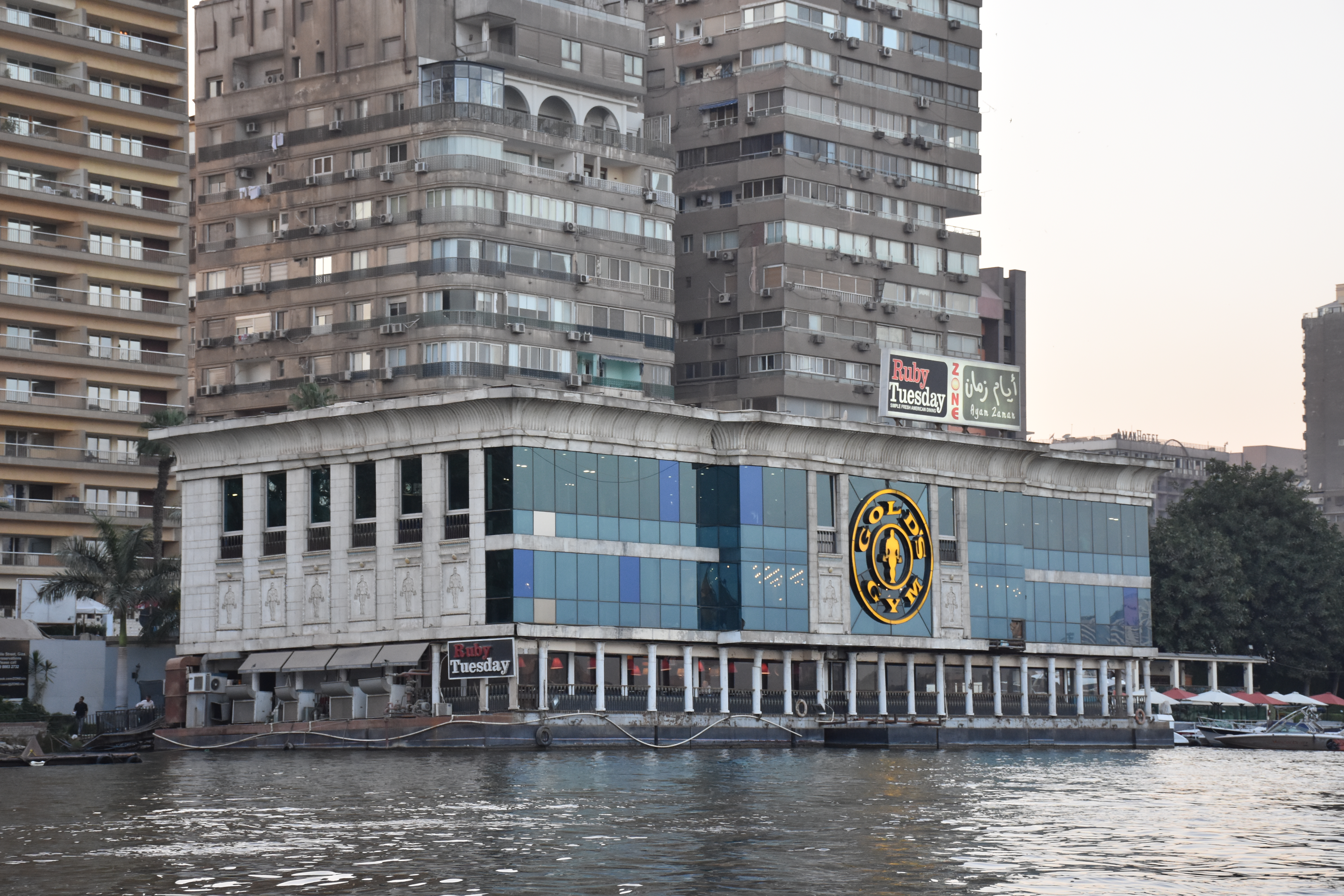 A Gold's Gym and Ruby Tuesday restaurant in Cairo along the Nile